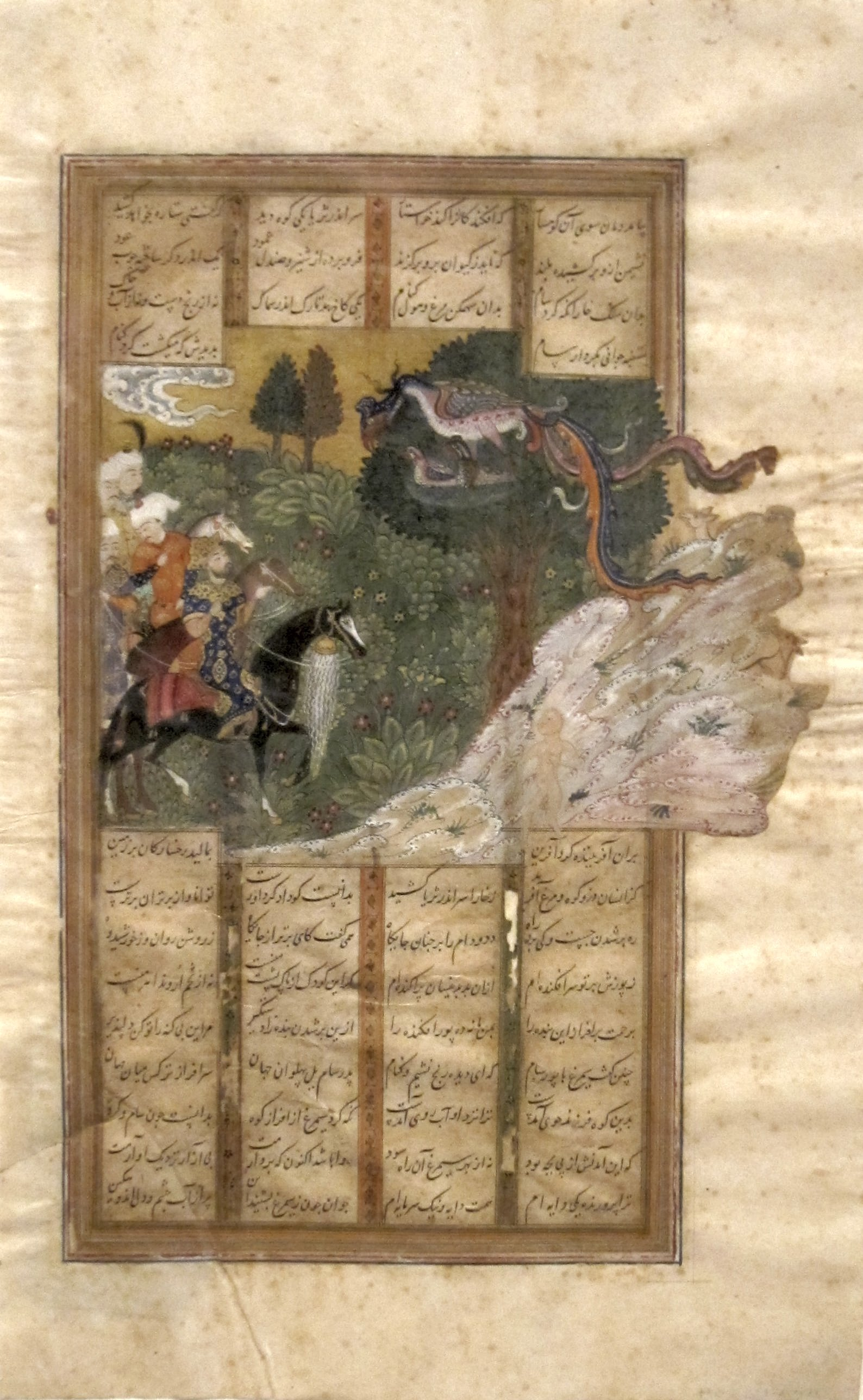 Zal and the Simurgh, ink and opaque watercolor painting from Iran, late 15th or early 16th century, Honolulu Museum of Art, accession 13934